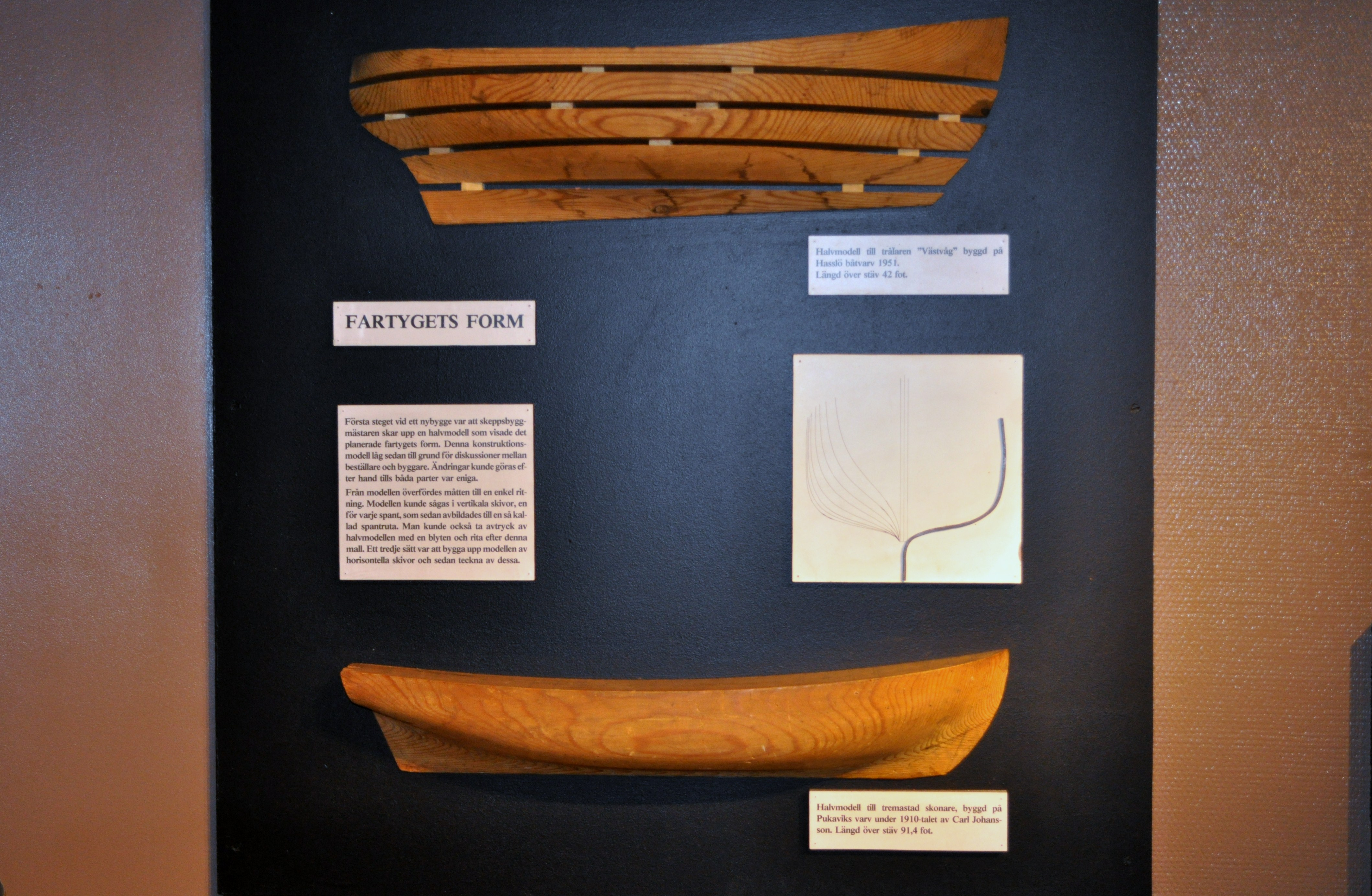 Half model for shipbuilding